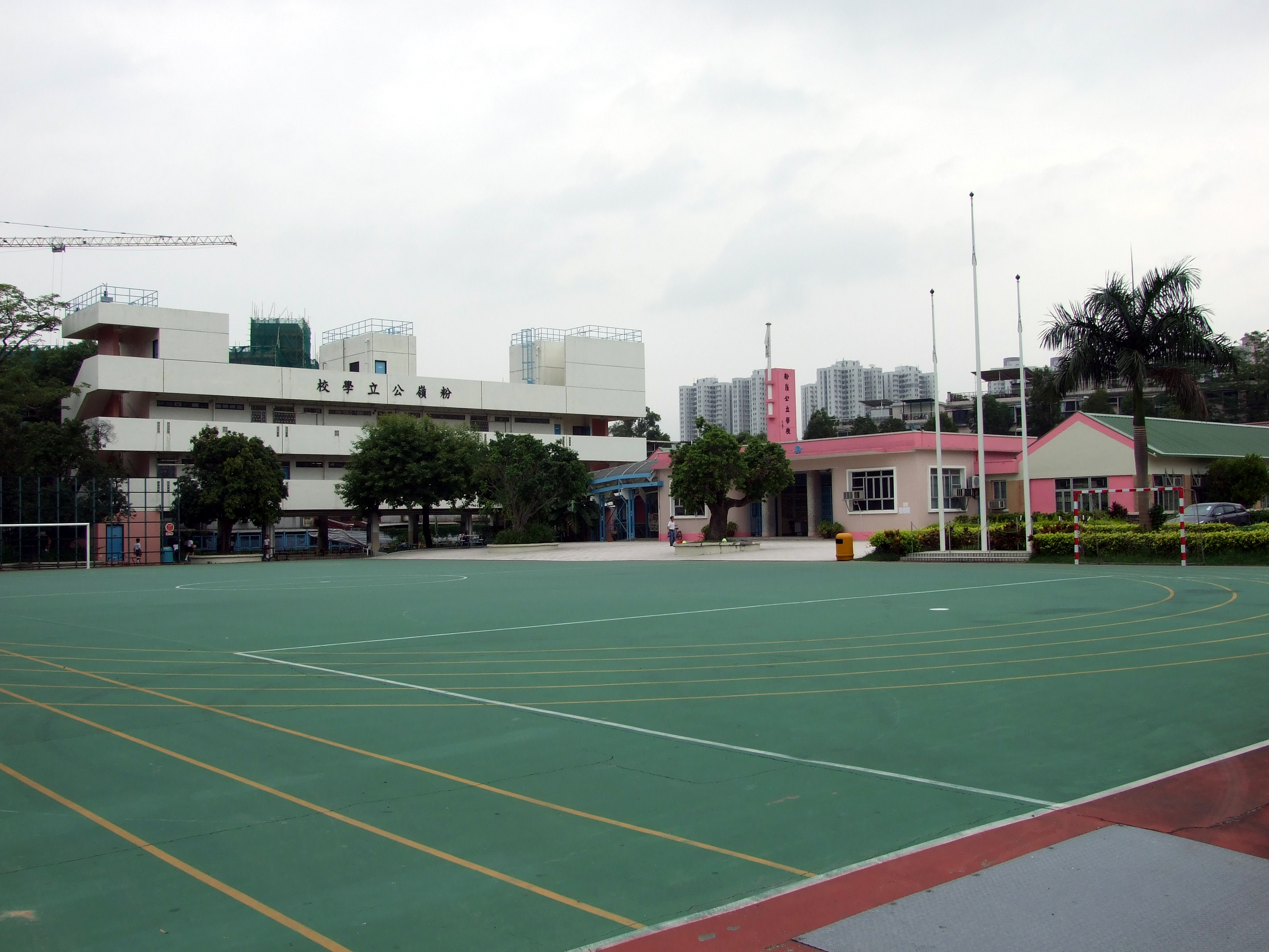 Fanling Public School